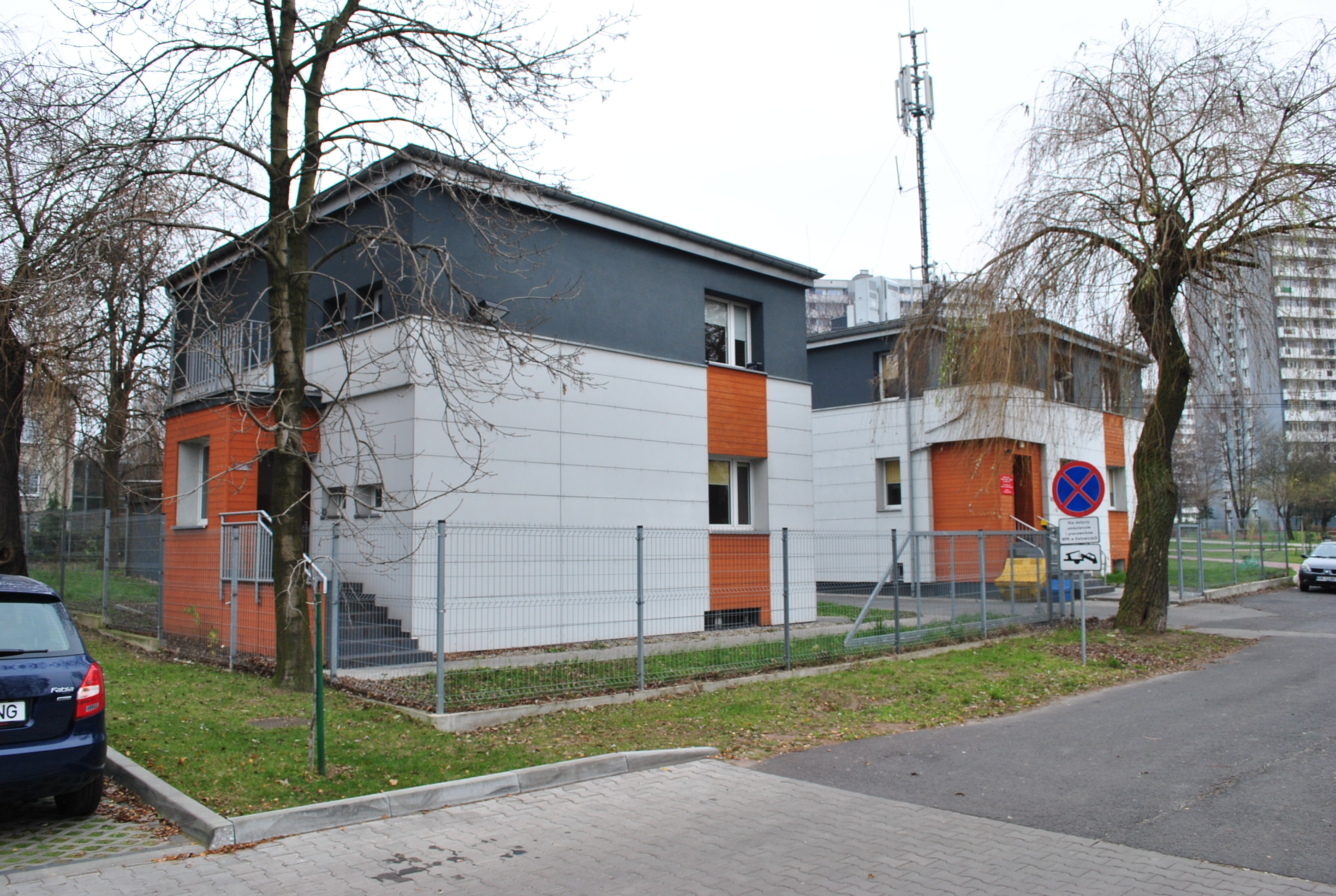 Ambulance station in Katowice